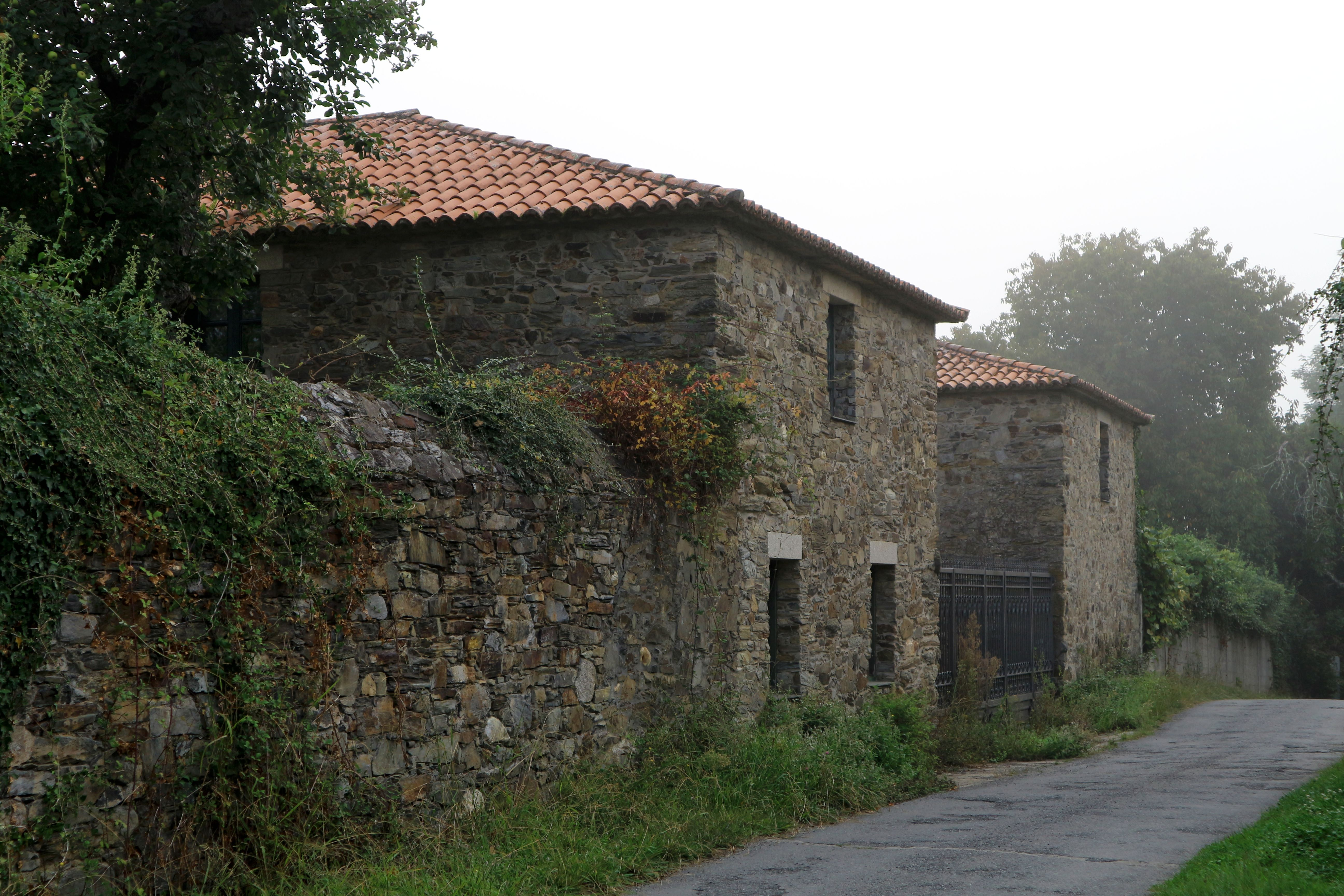 Pazo de Macenda, en Macenda, Crendes, Abegondo.